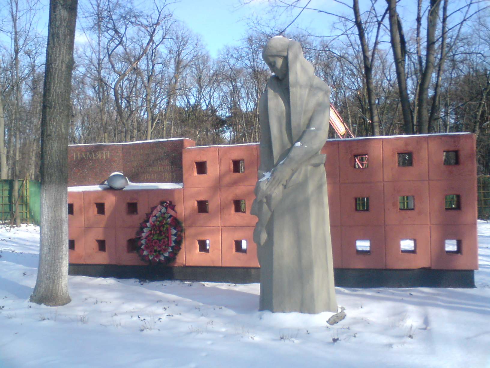 Dovzhenko Film Studios.